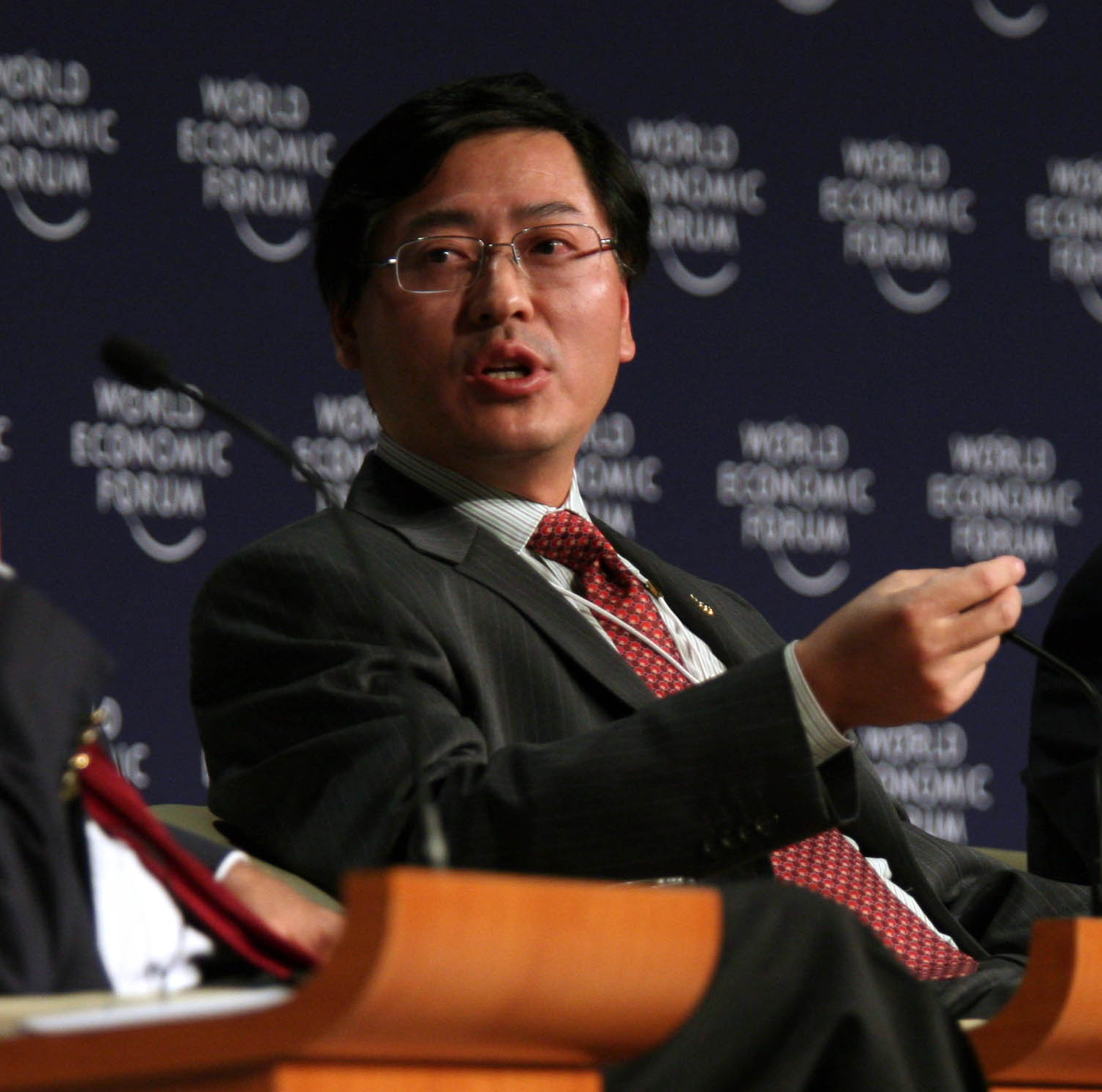 TIANJIN/CHINA, 28SEPT08 - Yang Yuanqing (second from left), Chairman of the Board, Lenovo, speaks From Global Growth Company to Corporate Global Citizen plenary session at the World Economic Forum Annual Meeting of the New Champions in Tianjin, China 28 September 2008. Copyright World Economic Forum (